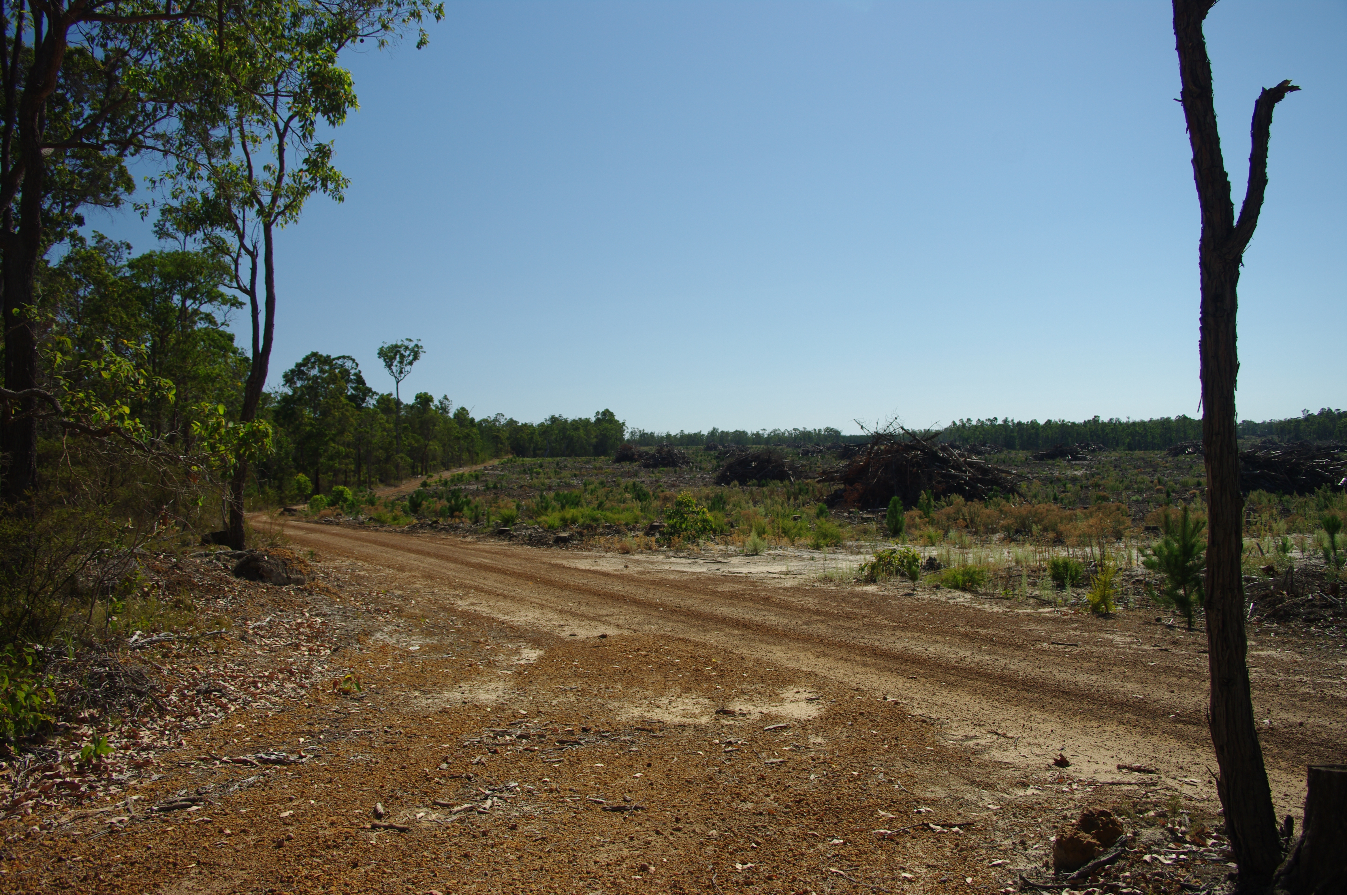 after the logging of plantation pine trees in the whicher range